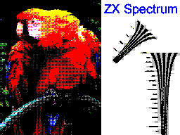 A rendering of Image:Parrot.red.macaw.1.arp.750pix.jpg on the ZX Spectrum "Hicolour", 32×192 attributes display.